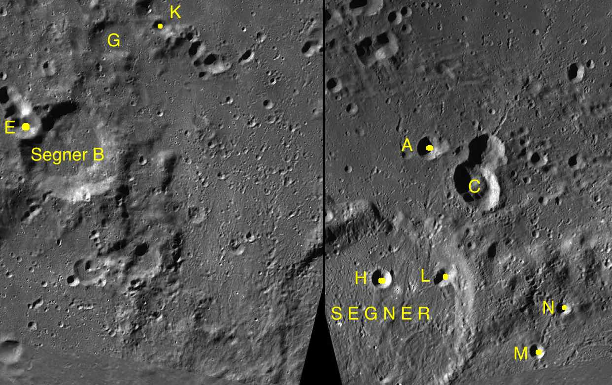 Parts of the charts LAC-124, LAC-125 used for the presentation